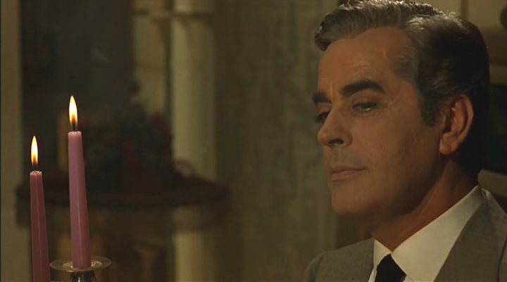 Mario Pisu - Film capture from Juliet of the Spirits by Federico Fellini.